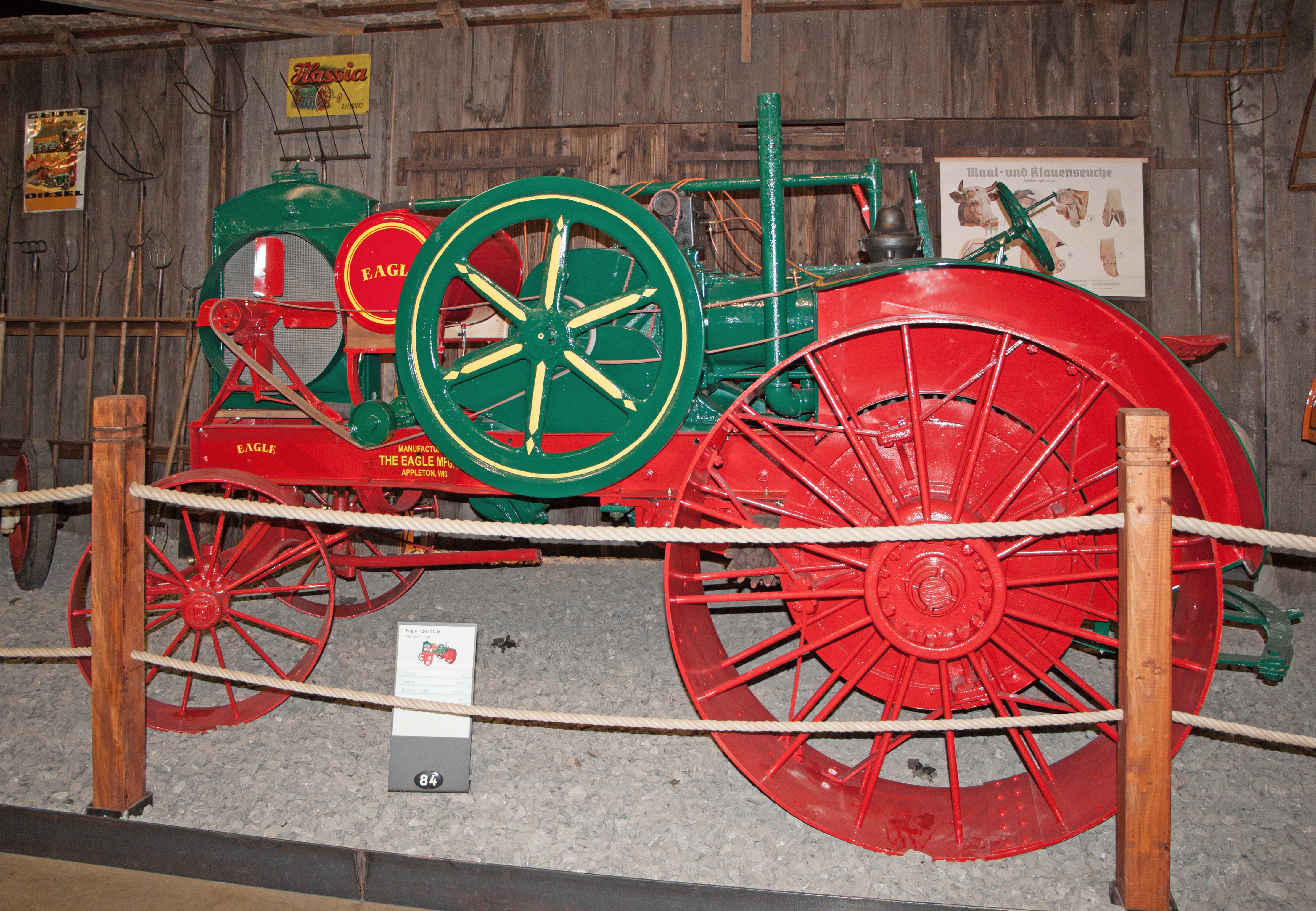 Avery 45/65, Eagle Manufacturing Company, Appleton, Wisconsin, USA, 1928.Cylinder: 2 Engine displacement: 16474 ccmHP: 40Weight: 3359 kgTraktormuseum Bodensee, Gebhardsweiler, Uhldingen-Mühlhofen,Germany